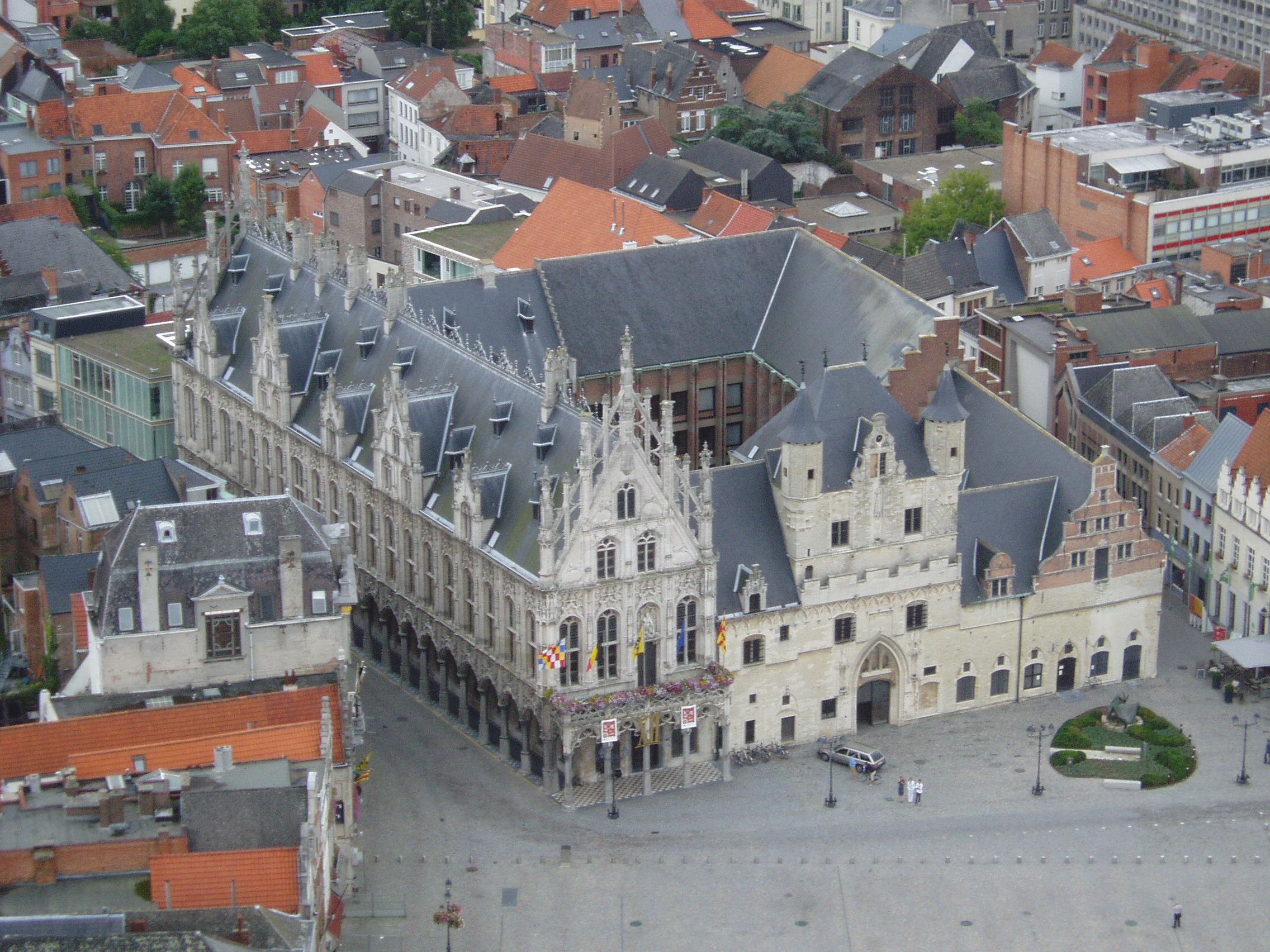 Picture of the city hall of Mechelen (Belgium). Taken from the cathedral Sint-Rombouts.